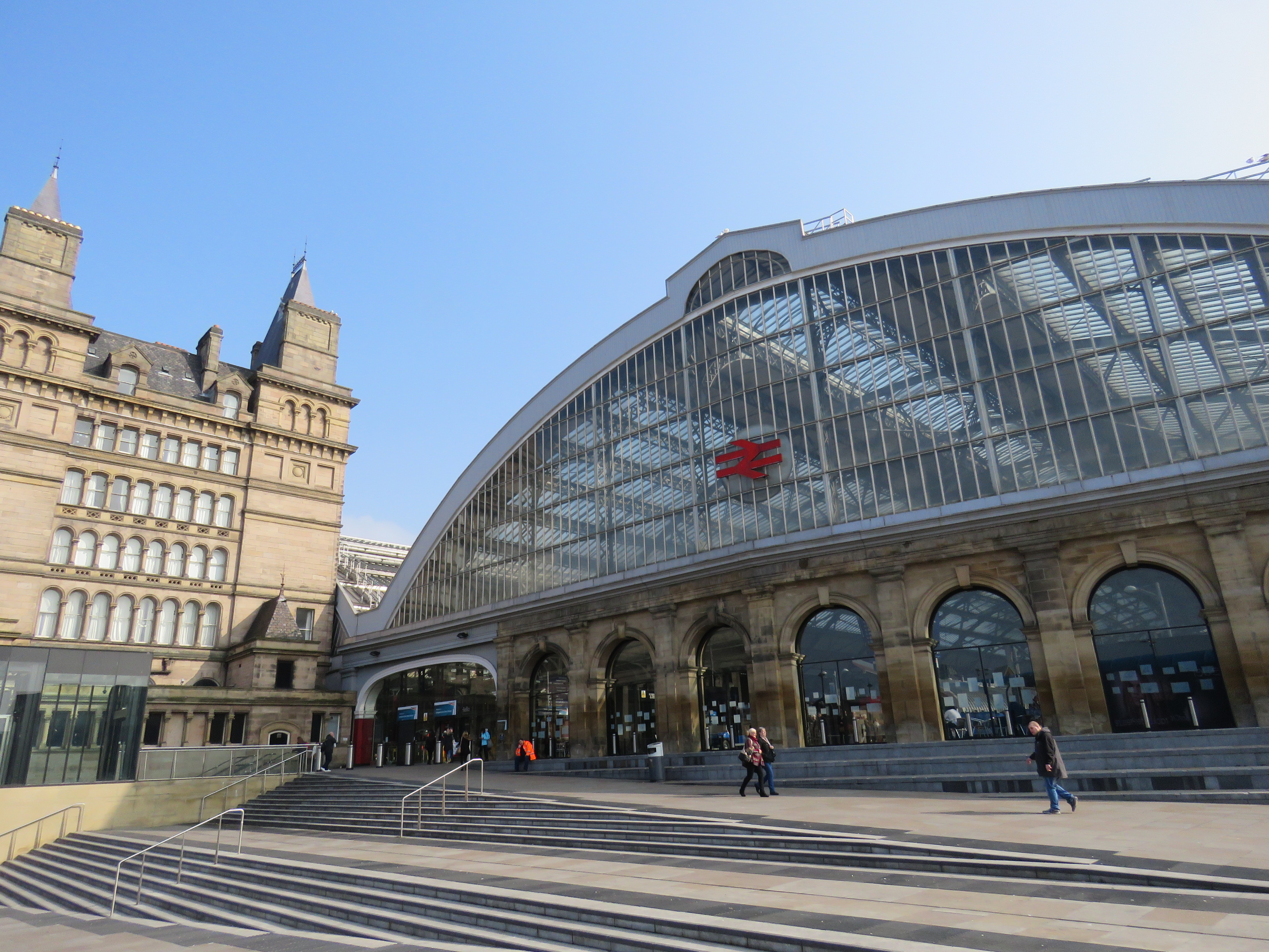 Entrance to Liverpool Lime St station